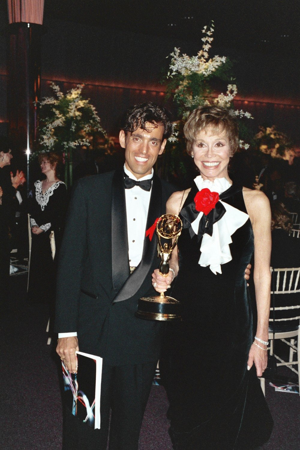 1993 Emmy Awards NOTE: Permission granted to copy, publish, broadcast or post any of my photos, but please credit "photo by Alan Light" if you can. Thanks. Scanned from the original 35MM film negative.